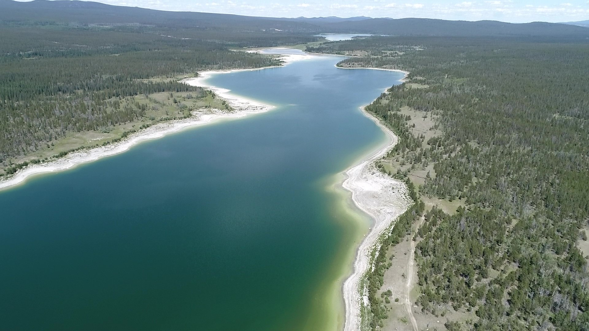 Drone shot of Martin lake in the Chilcotin.